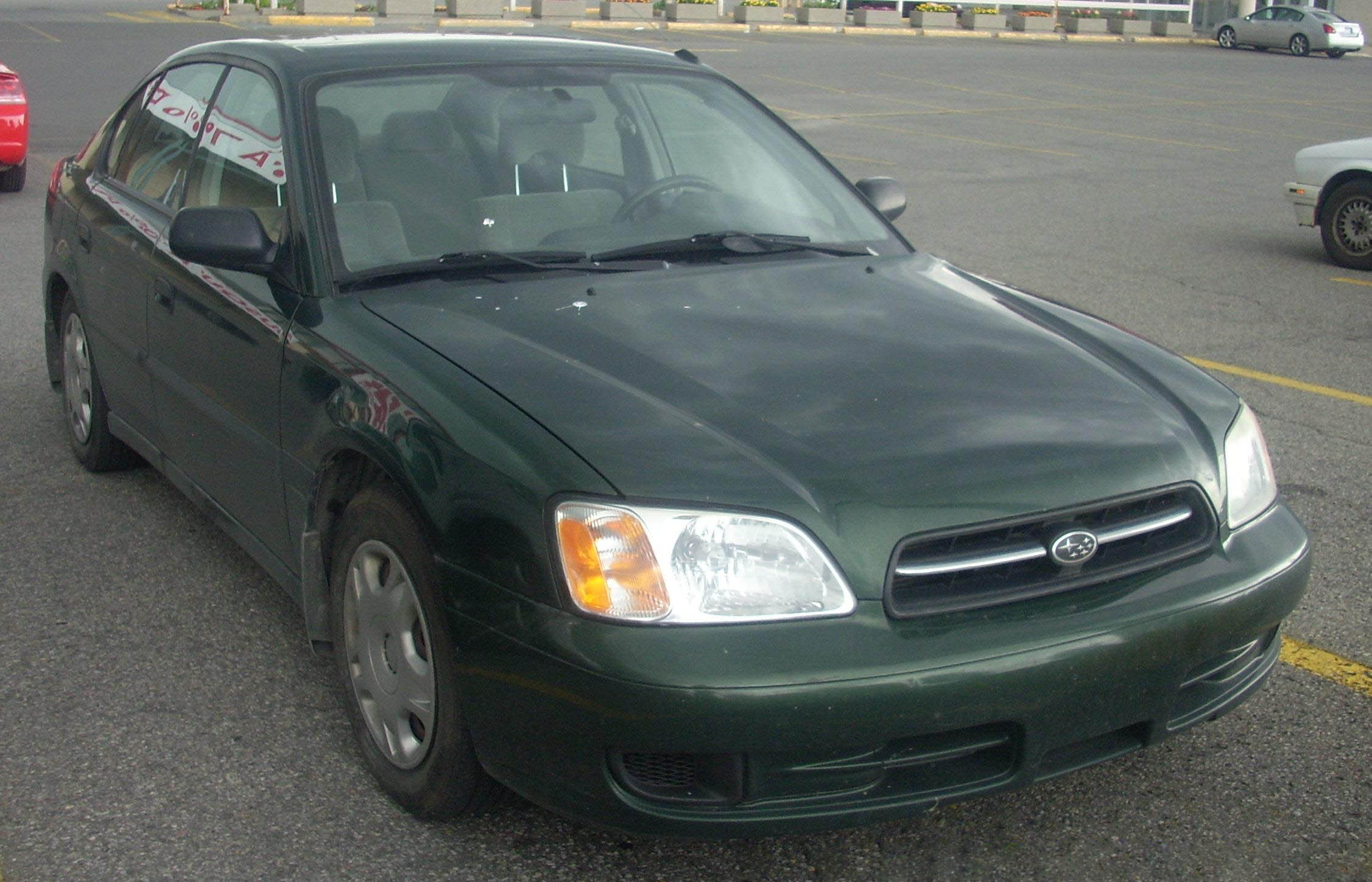 2000-2002 Subaru Legacy photographed in Laval, Quebec, Canada.